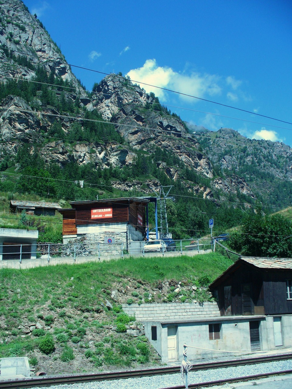 Lower station of cable car to Jungen, St. Niklaus, Valais, Switzerland